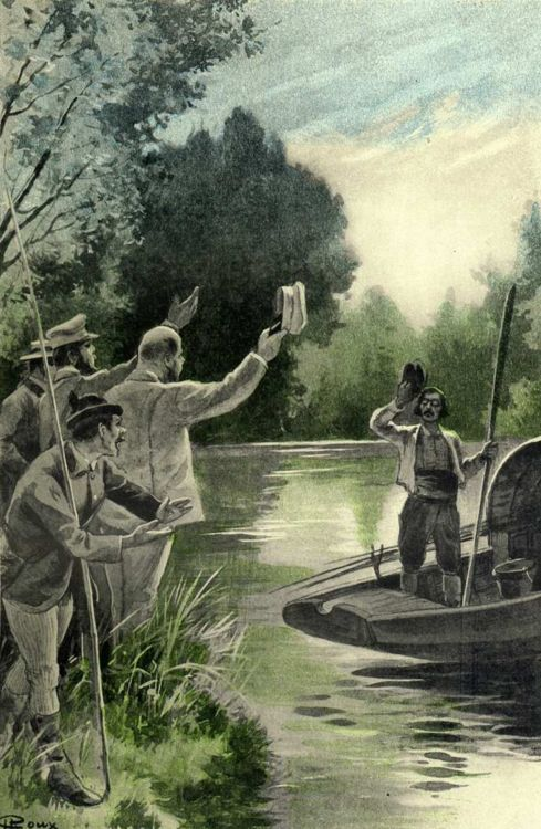 An illustration from Jules Verne's novel "The Danube Pilot" (1908) drawn by George Roux.